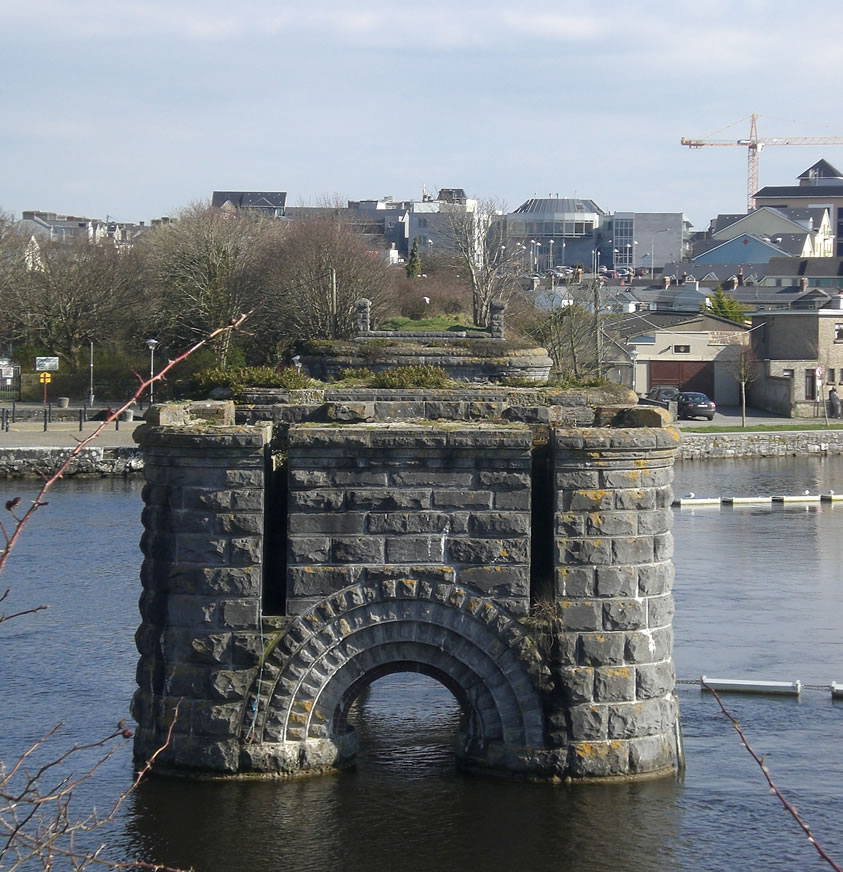 The remains of the Galway to Clifden Railway line bridge in Galway city. photo - Eugene Jordan 2007